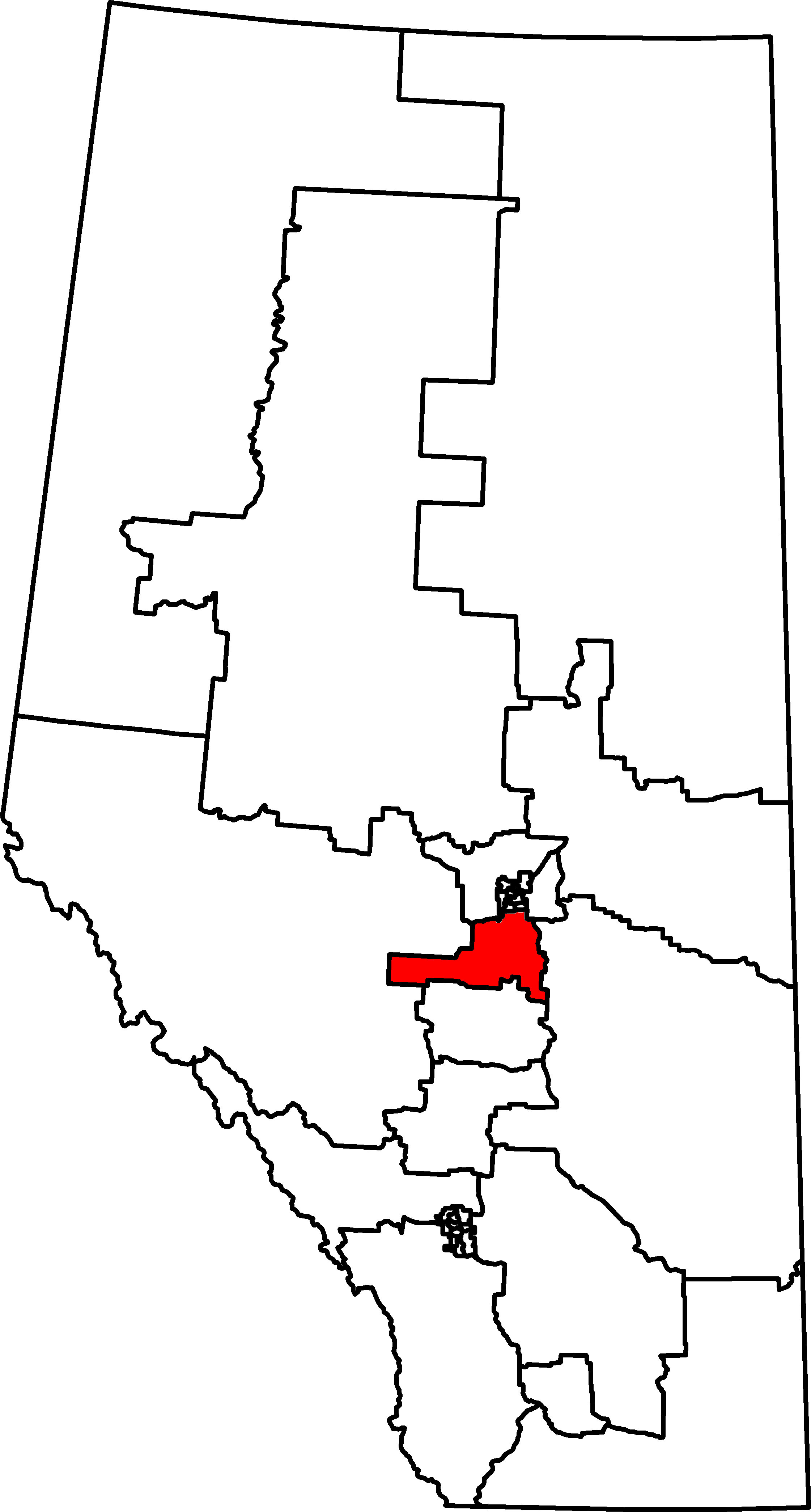 Federal Electoral District in Alberta, Canada as of the 2013 Representation Order.